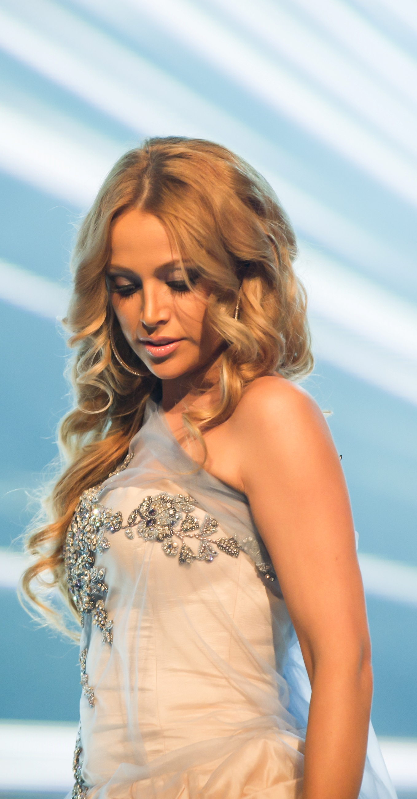 Nigar Jamal